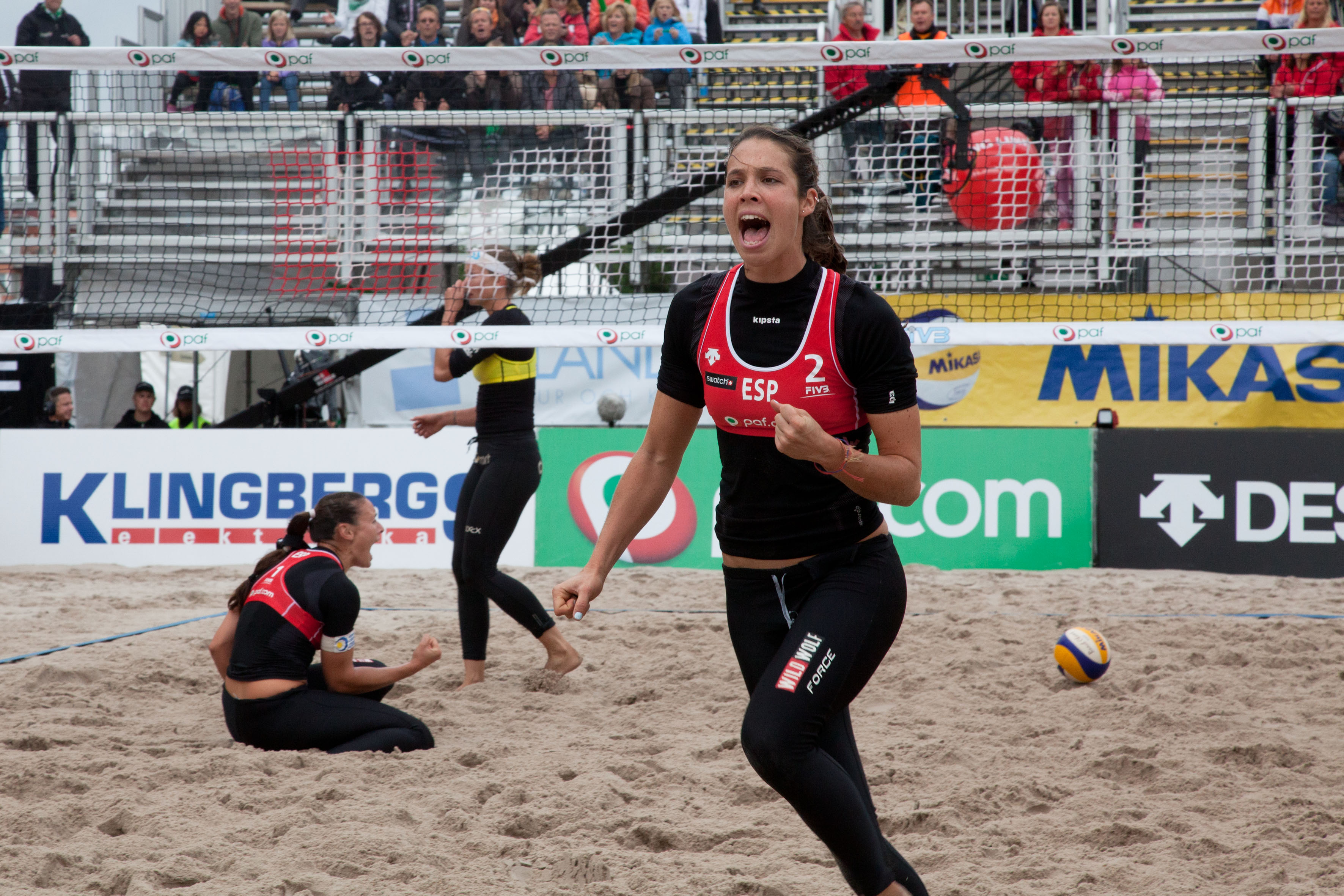 Holtwick (yellow no.1) and Semmler (yellow no.2) of Germany defeat Liliana (red no.1) and Baquerizo (red no.2) of Spain in the final to take gold. The final day of the Paf Open in Mariehamn, Åland, Finland, September 2 2012. Photograph: Rob Watkins/ This picture is free to use as long as it it credited: Rob Watkins/